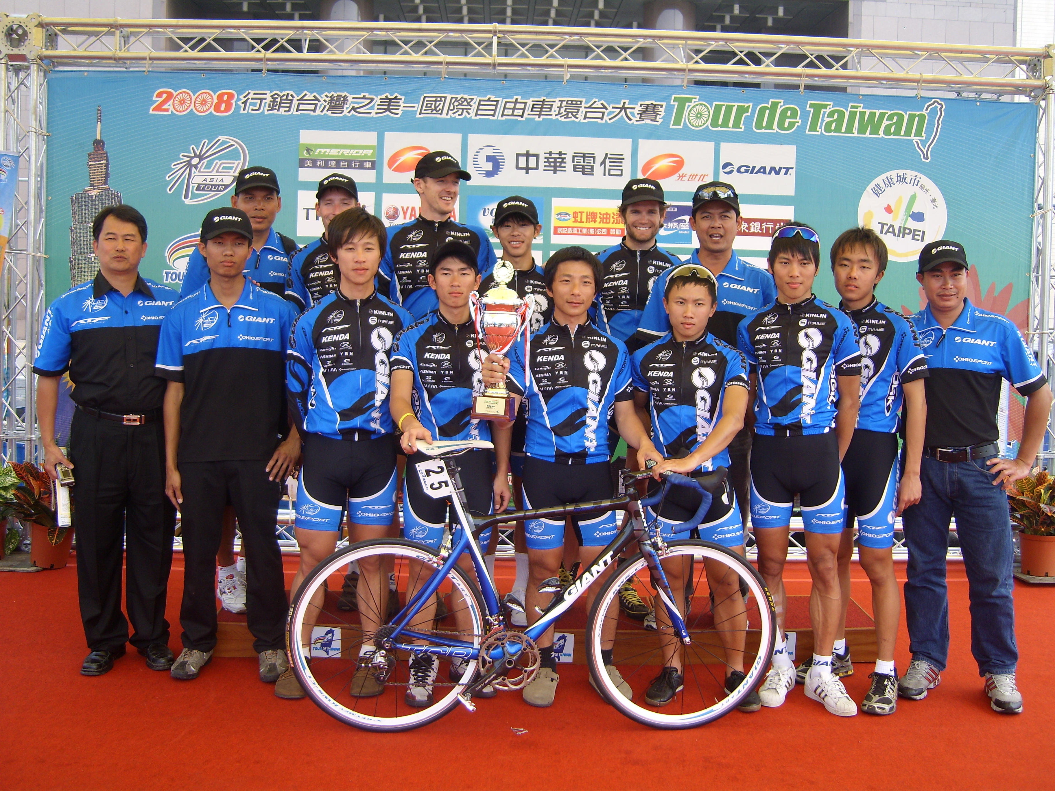 2008 Tour de Taiwan Stage 8: Giant Asia Racing Team, the Team Champion of this series.